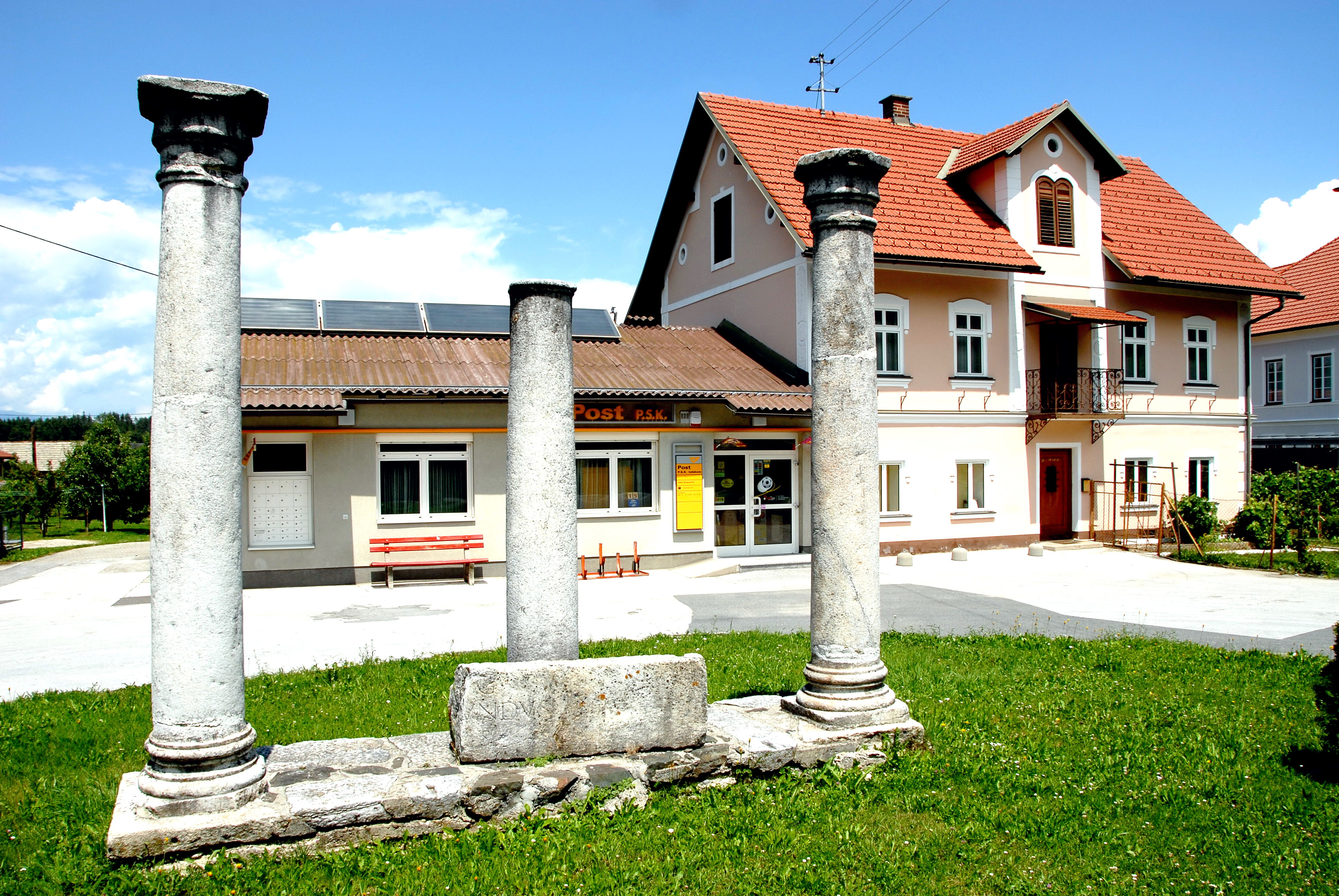 Roman pillars of Iuenna at Tschepitschach, municipality Globasnitz, district Völkermarkt, Carinthia, Austria, EU